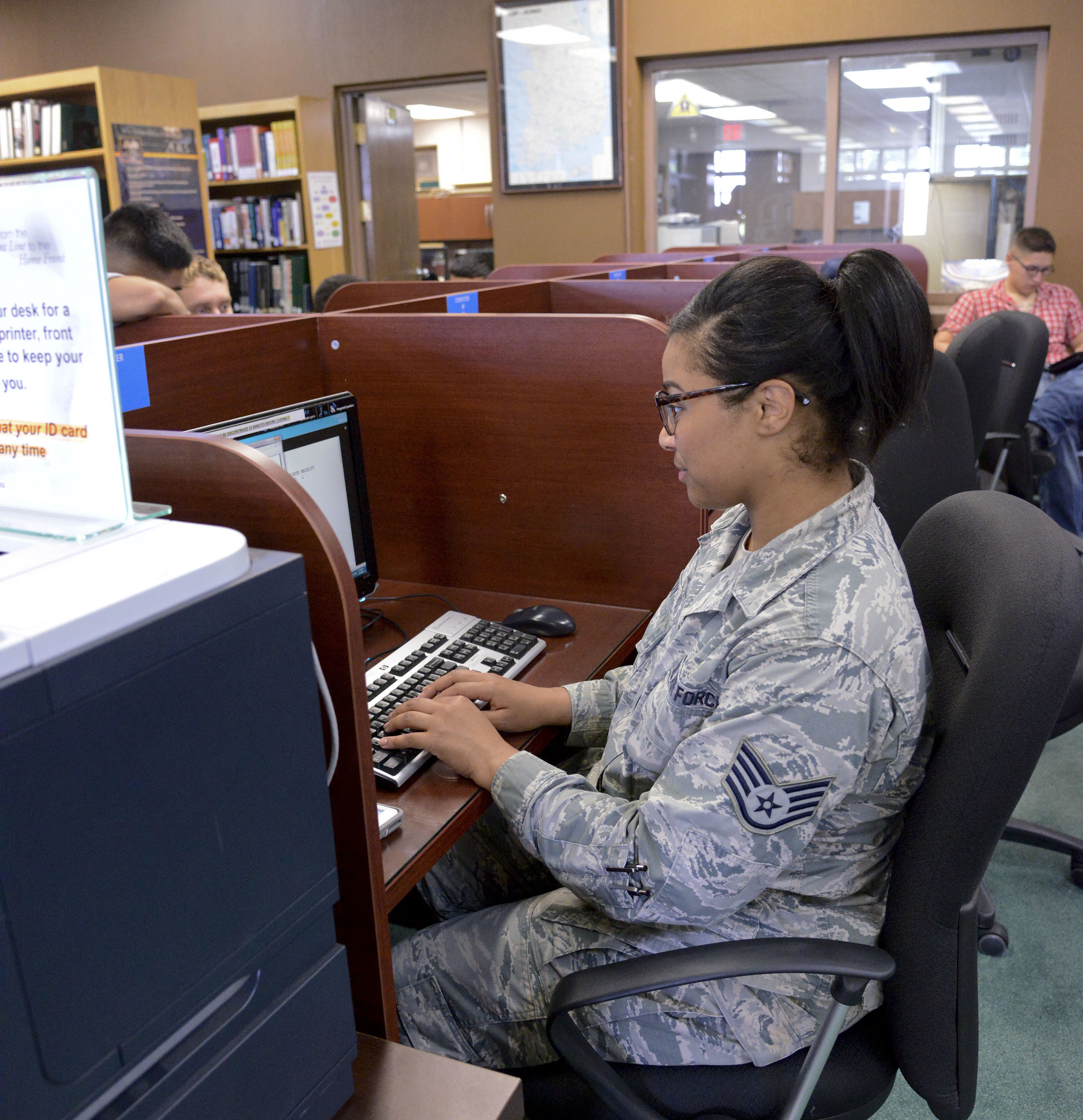 Staff Sgt. Angela Gray, 6th Intelligence Squadron imagery missions supervisor, studies for a College Level Examination Program test in the base library on Osan Air Base, Republic of Korea, July 2, 2015. CLEPs and Defense Activity for Non-Traditional Education Support testing assess college-level knowledge in many subject areas and provides a mechanism for earning college credits without having to take college courses. CLEP and DANTES tests can be used to help fast-track degree plans rather than spending weeks in a classroom. (U.S. Air Force photo/Senior Airman Kristin High) Unit: 51st Fighter Wing Public Affairs DVIDS Tags: college; South Korea; services; library; military; education; Republic of Korea; USAF; CCAF; Osan AB; higher learning